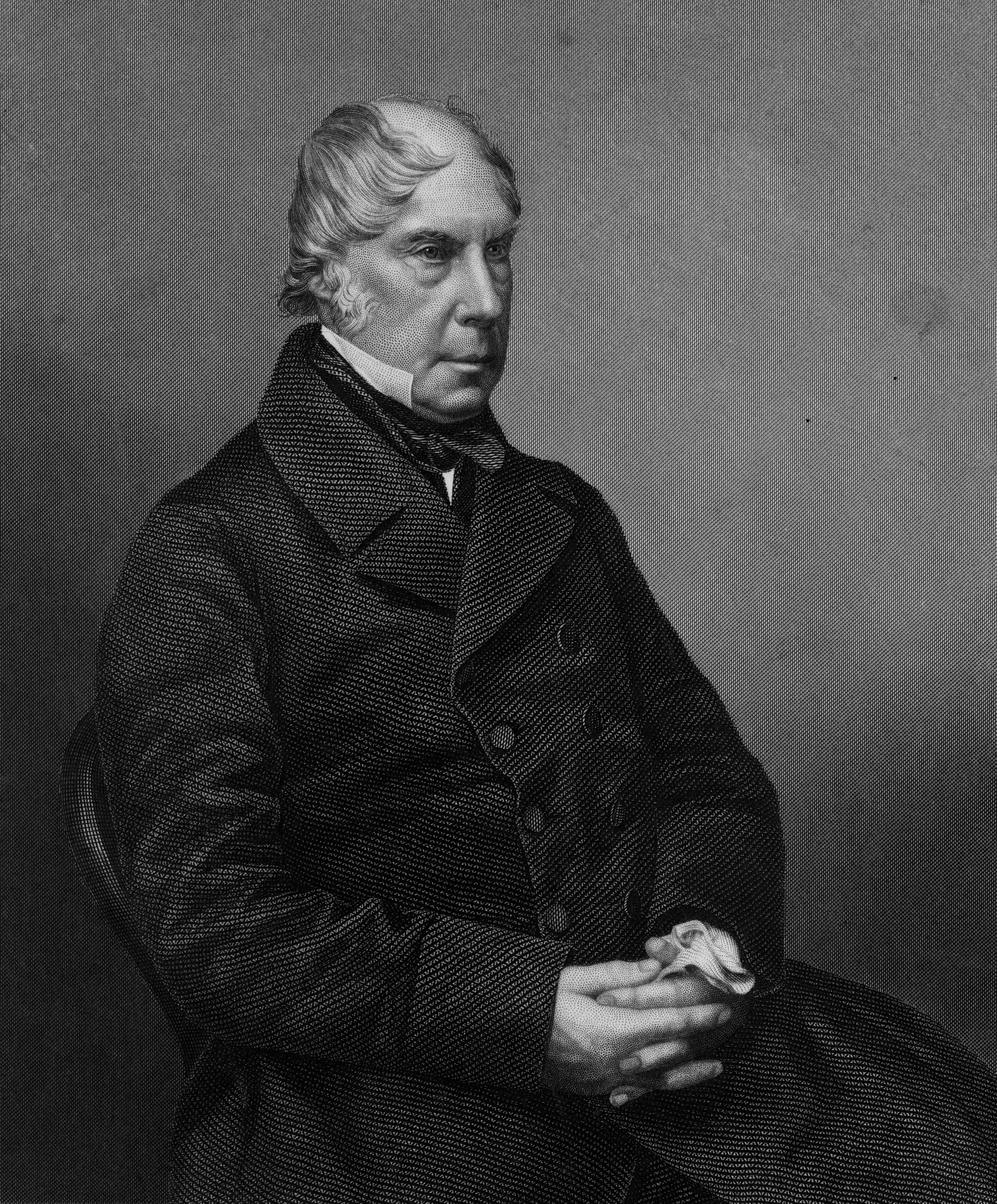 Engraving shows George Hamilton-Gordon, 4th Earl of Aberdeen, three-quarters length, seated, facing right. Portrait of George Hamilton-Gordon (1784–1860)